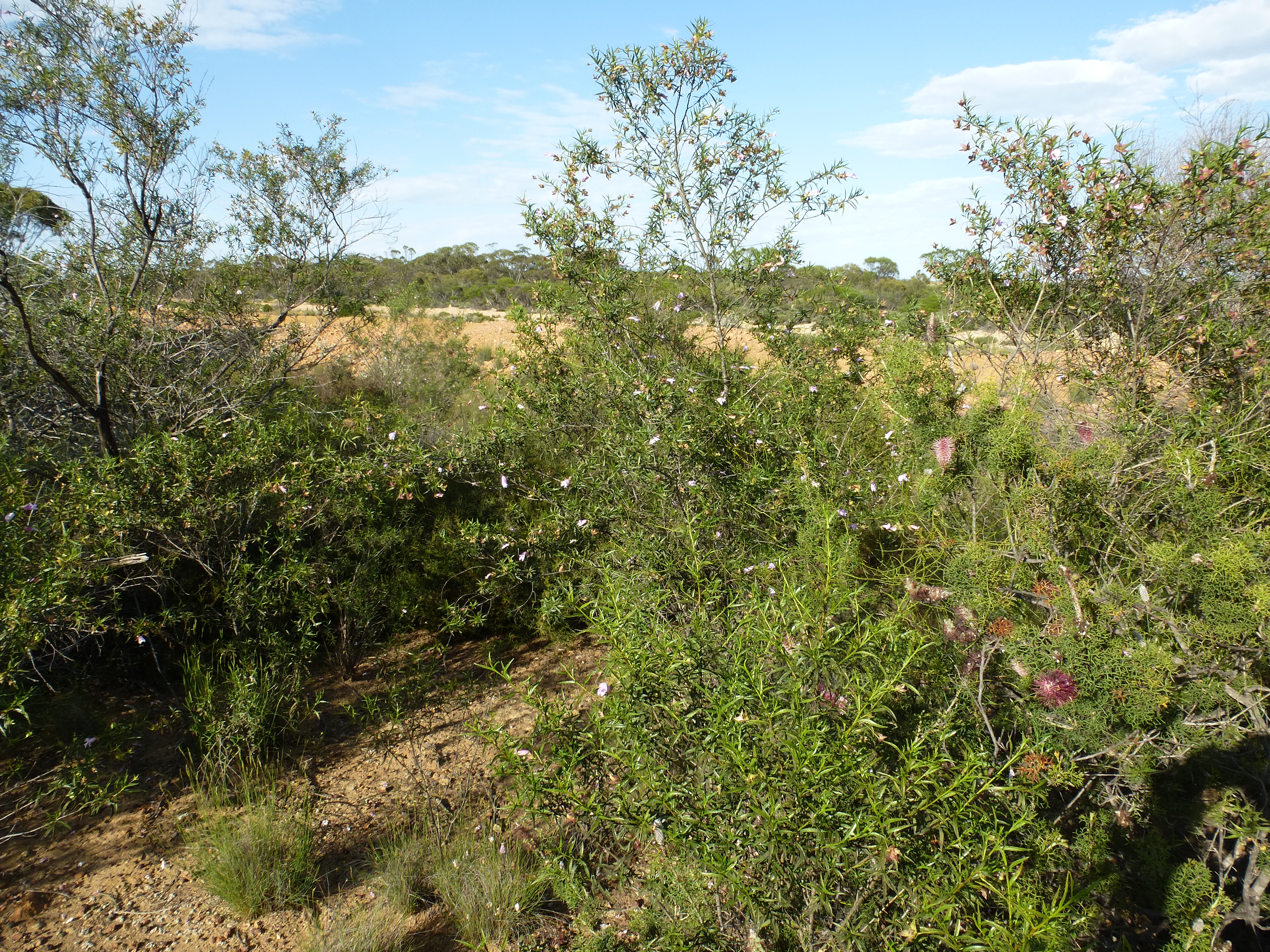 Eremophila granitica growing near Perenjori